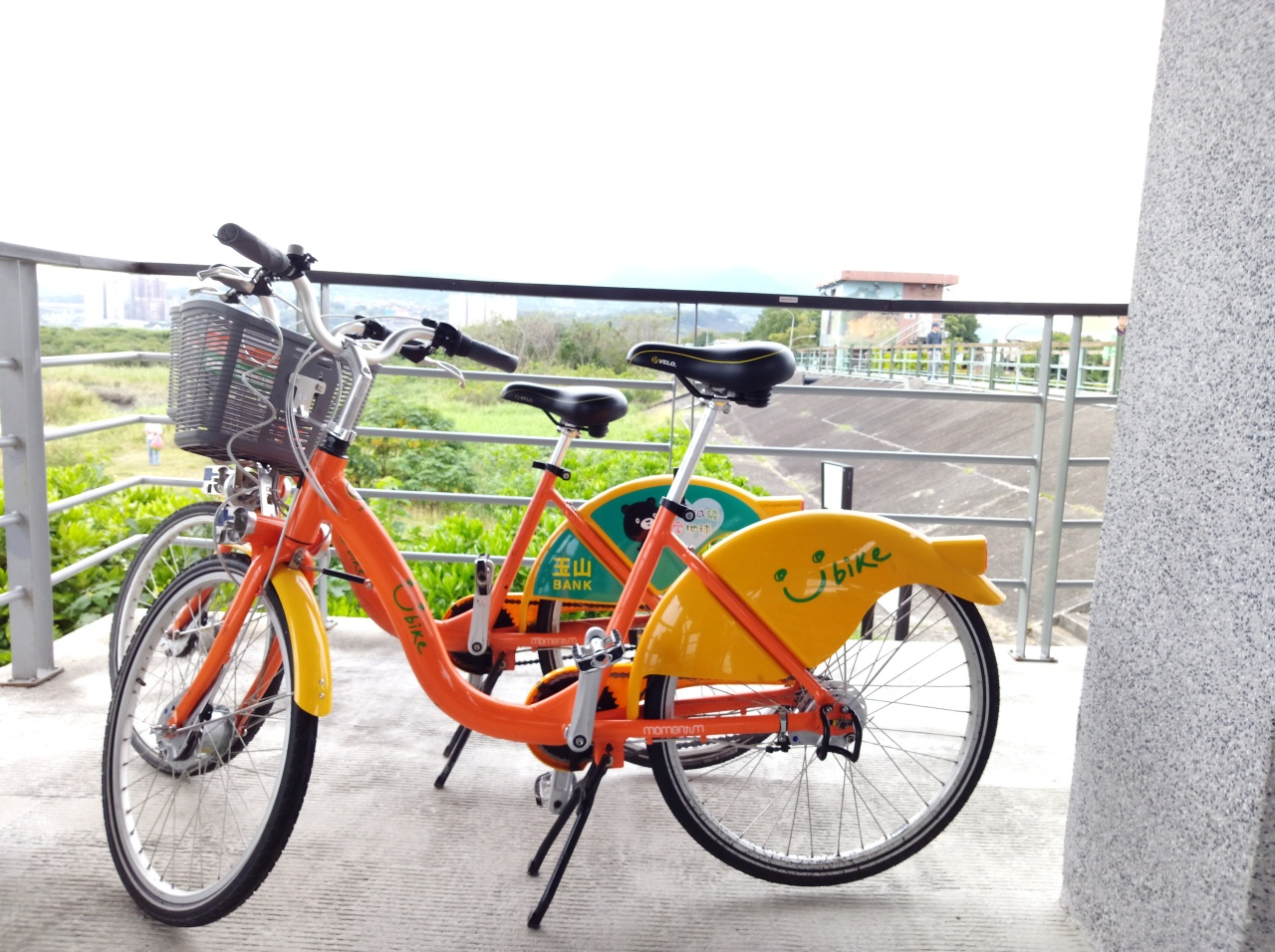 YouBike Bicycle sharing Taipei, Taiwan